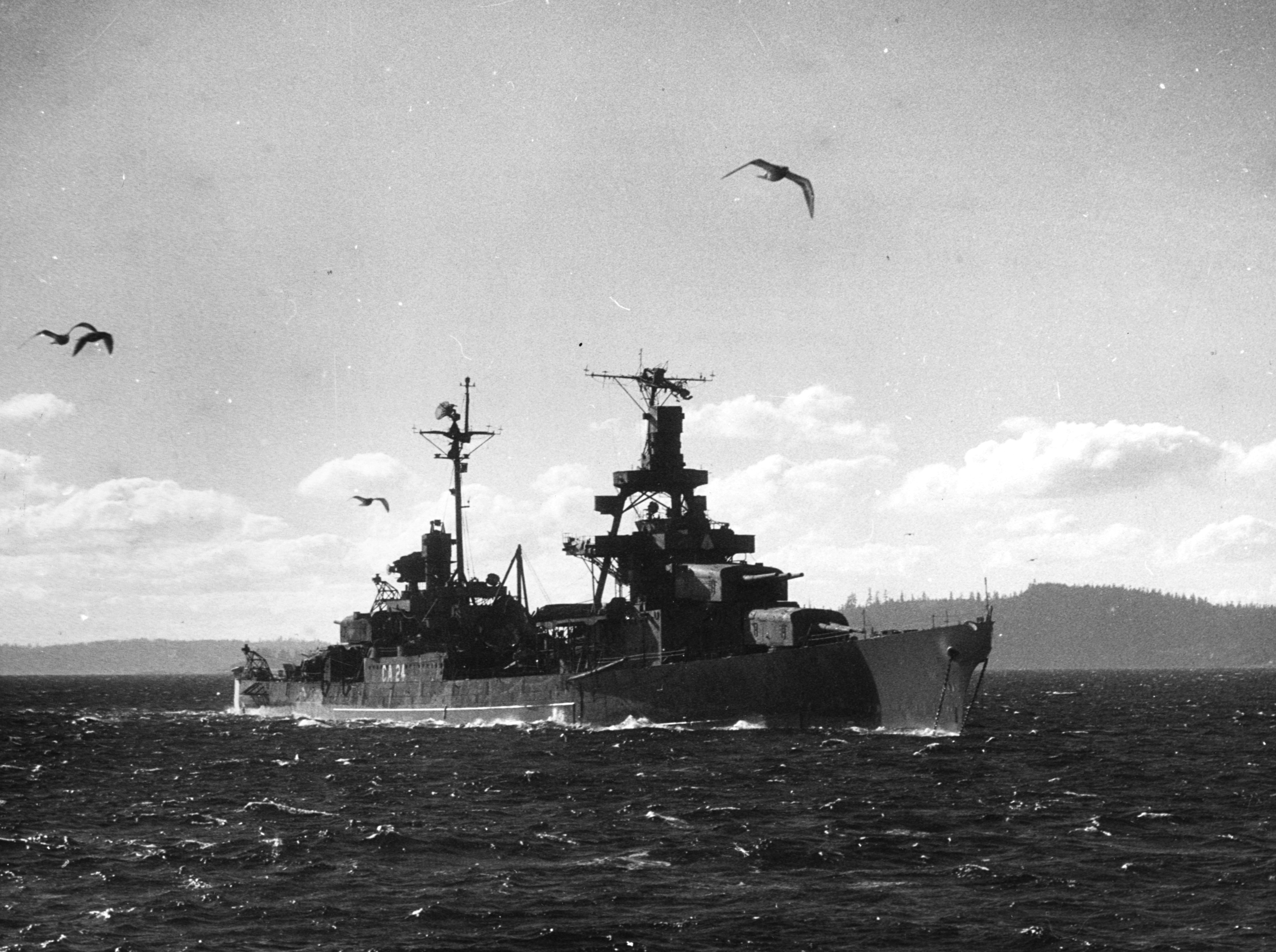 The U.S. heavy cruiser USS Pensacola (CA-24) is towed out of Puget Sound, Washington (USA), en route to sea for disposal as a target on 9 November 1948.